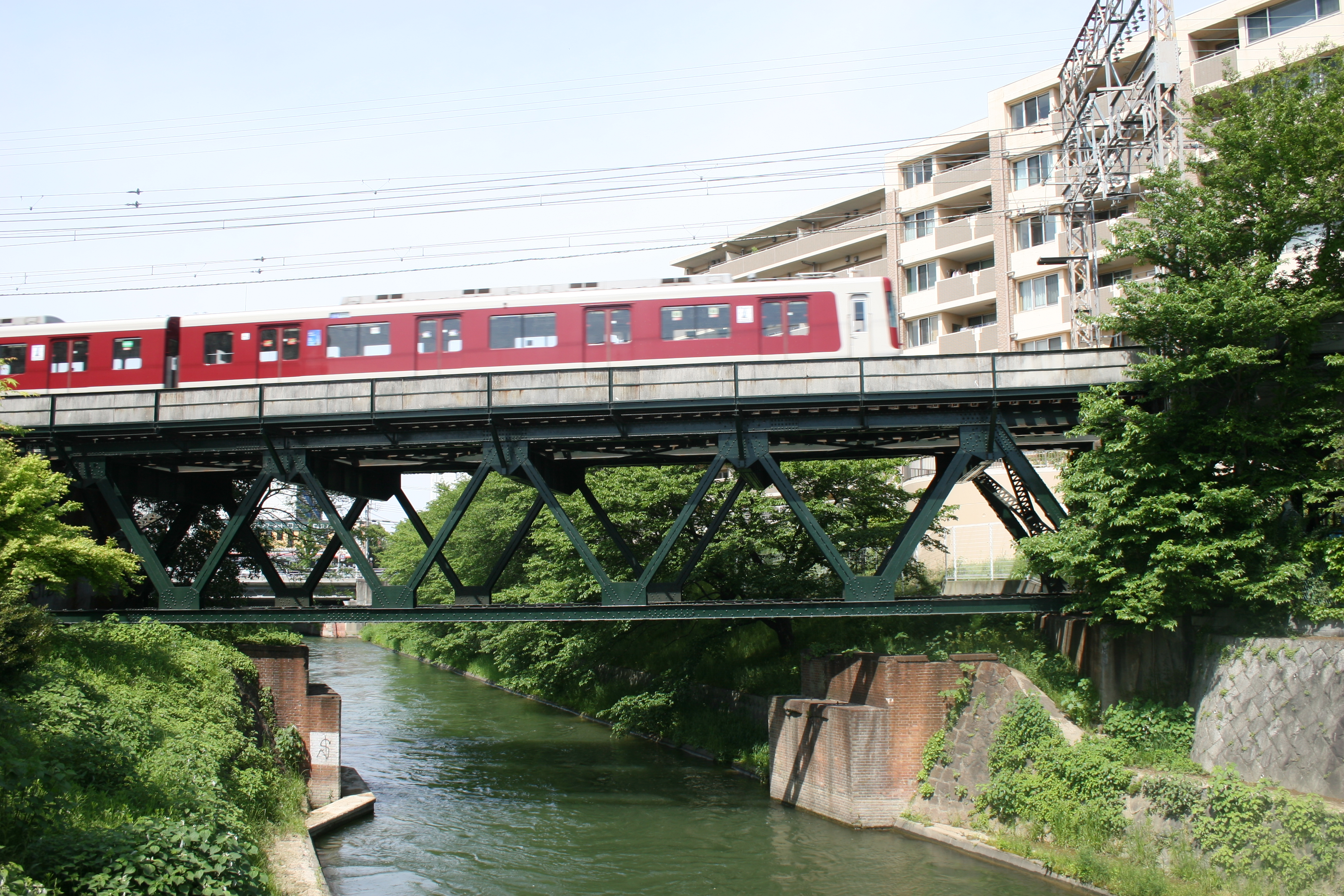 Local train bound for Shin-Tanabe using Kintetsu 3200 series EMU on the Kintetsu Kyoto Line between Fushimi Station and Kintetsu-Tambabashi Station in Fushimi-ku, Kyoto crosses the Lake Biwa Canal (Kamogawa Canal). The car on the bridge is the head of the train. Under the bridge are the abandoned brick abutments of a bridge of the Nara Line freight branch removed when the present line opened in 1928. Northern view from the Tsuchi-bashi bridge.